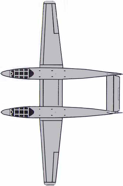 Top view of the General Aircraft GAL 48B Twin Hotspur, a twin-fuselage variant of the Hotspur assualt glider.